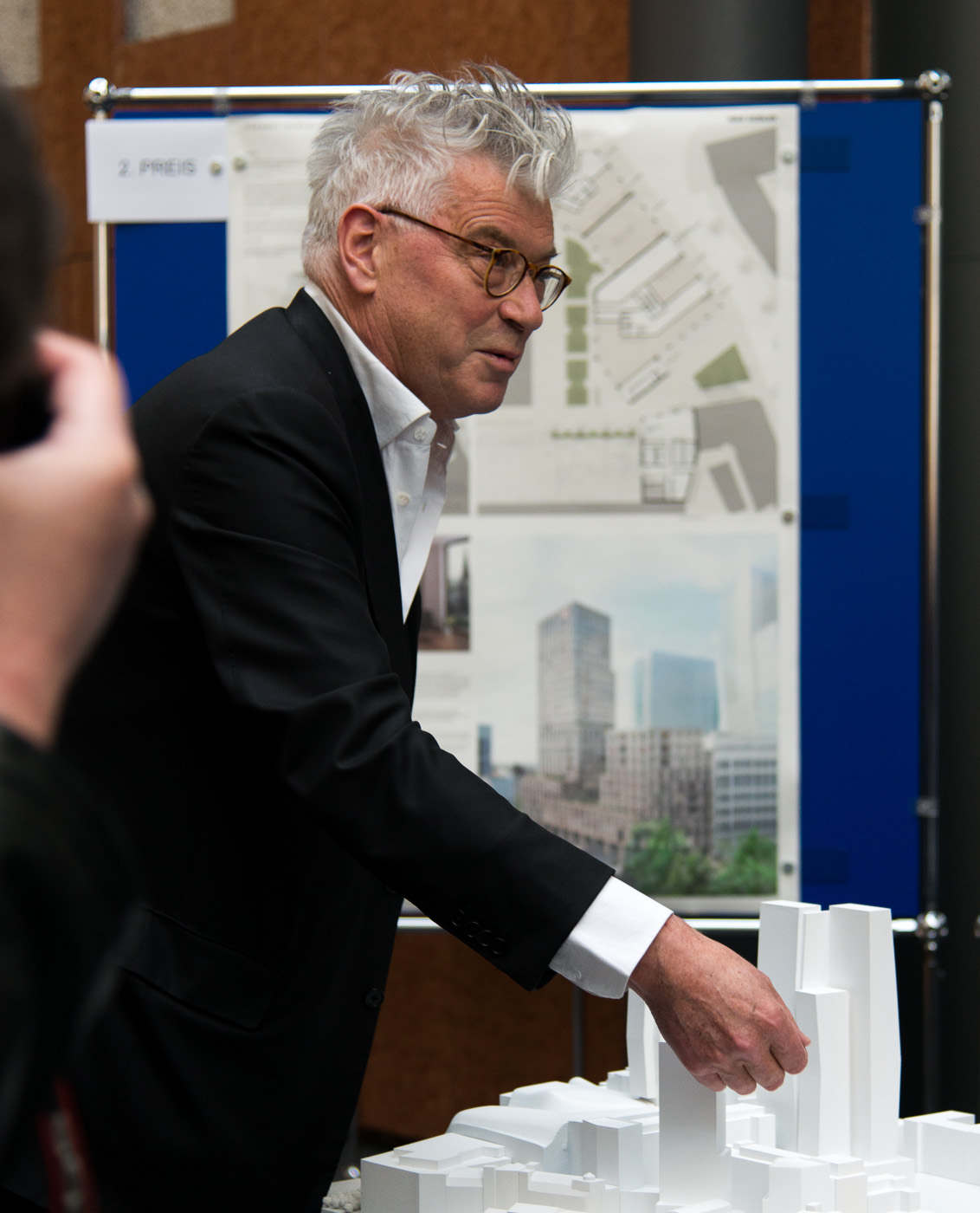 Swiss architect Max Dudler explaining his design of a residential tower in Frankfurt am Main (March 2013).